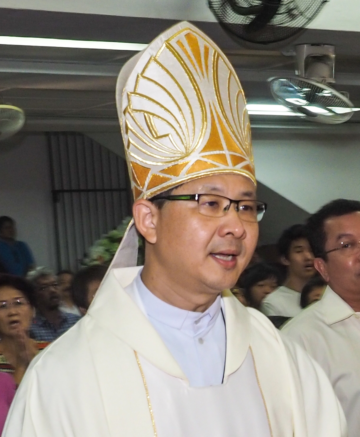 Julian Leow Beng Kim installing a Parish Priest